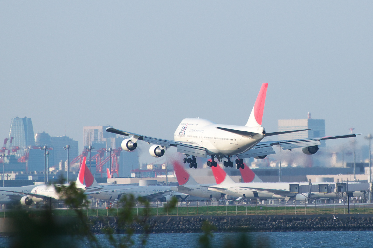 Unknown